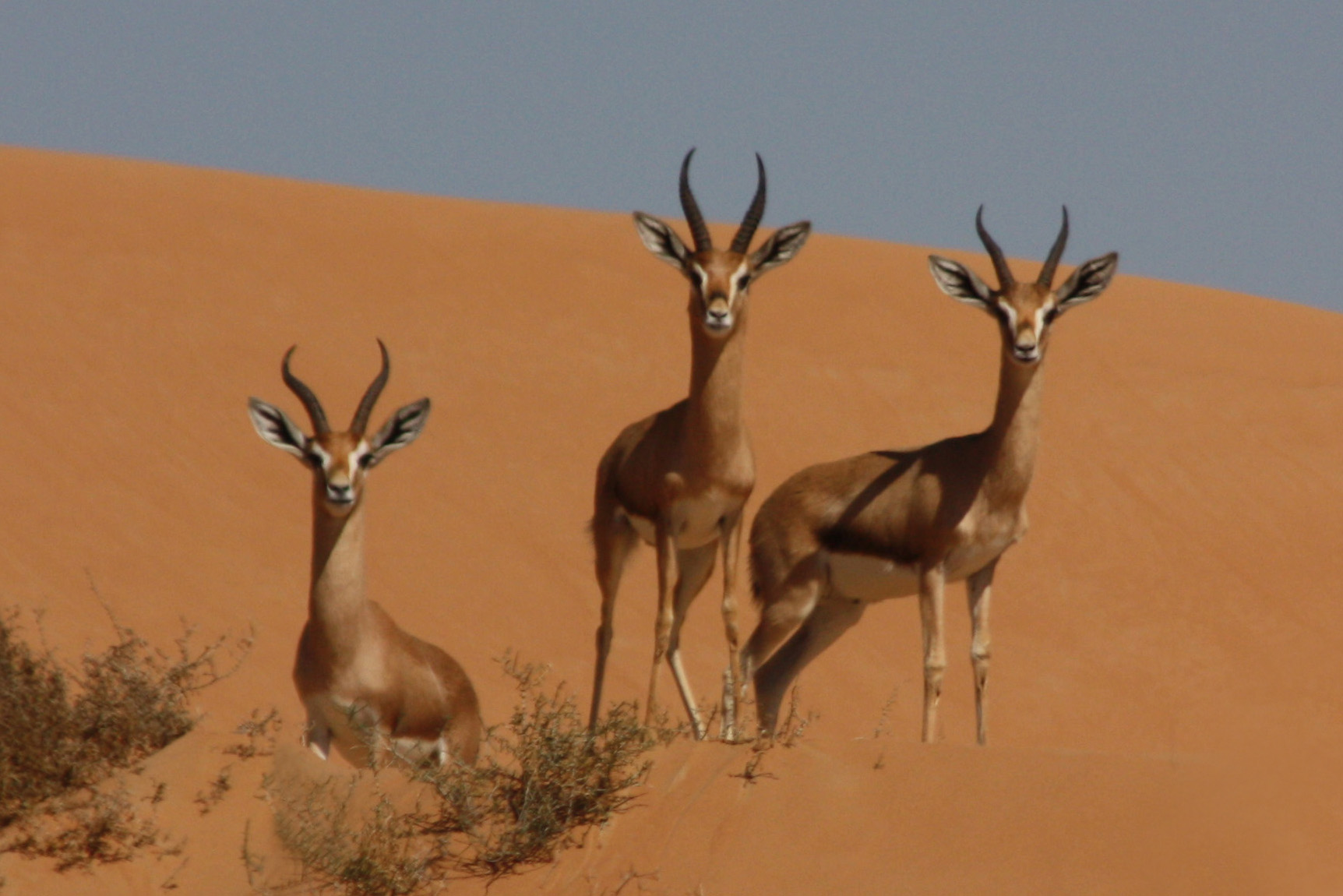 Mountain gazelles (gazella gazella) in the Dubai Desert Conservation Area, UAE